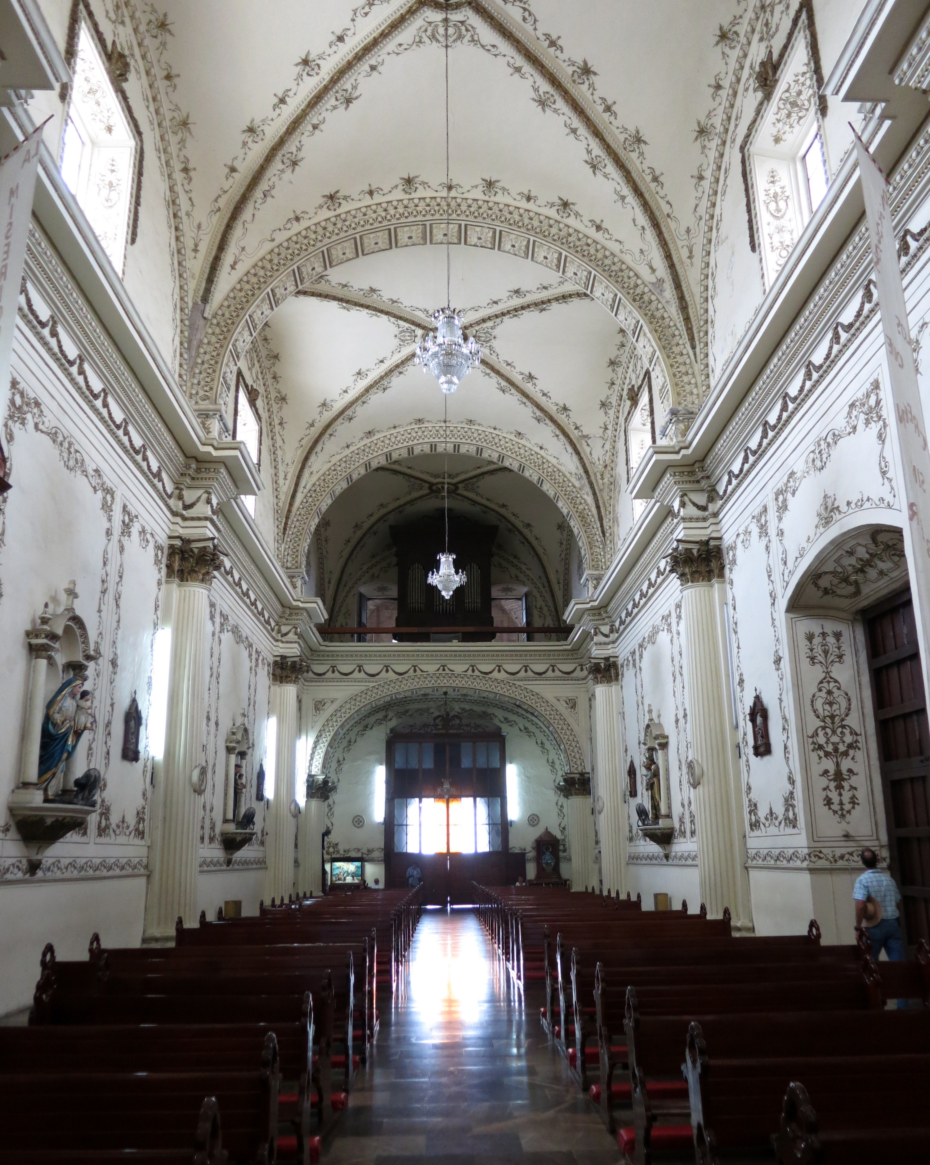 Catedral de la Purísima Concepción (Tepic, Nayarit) - nave, rear